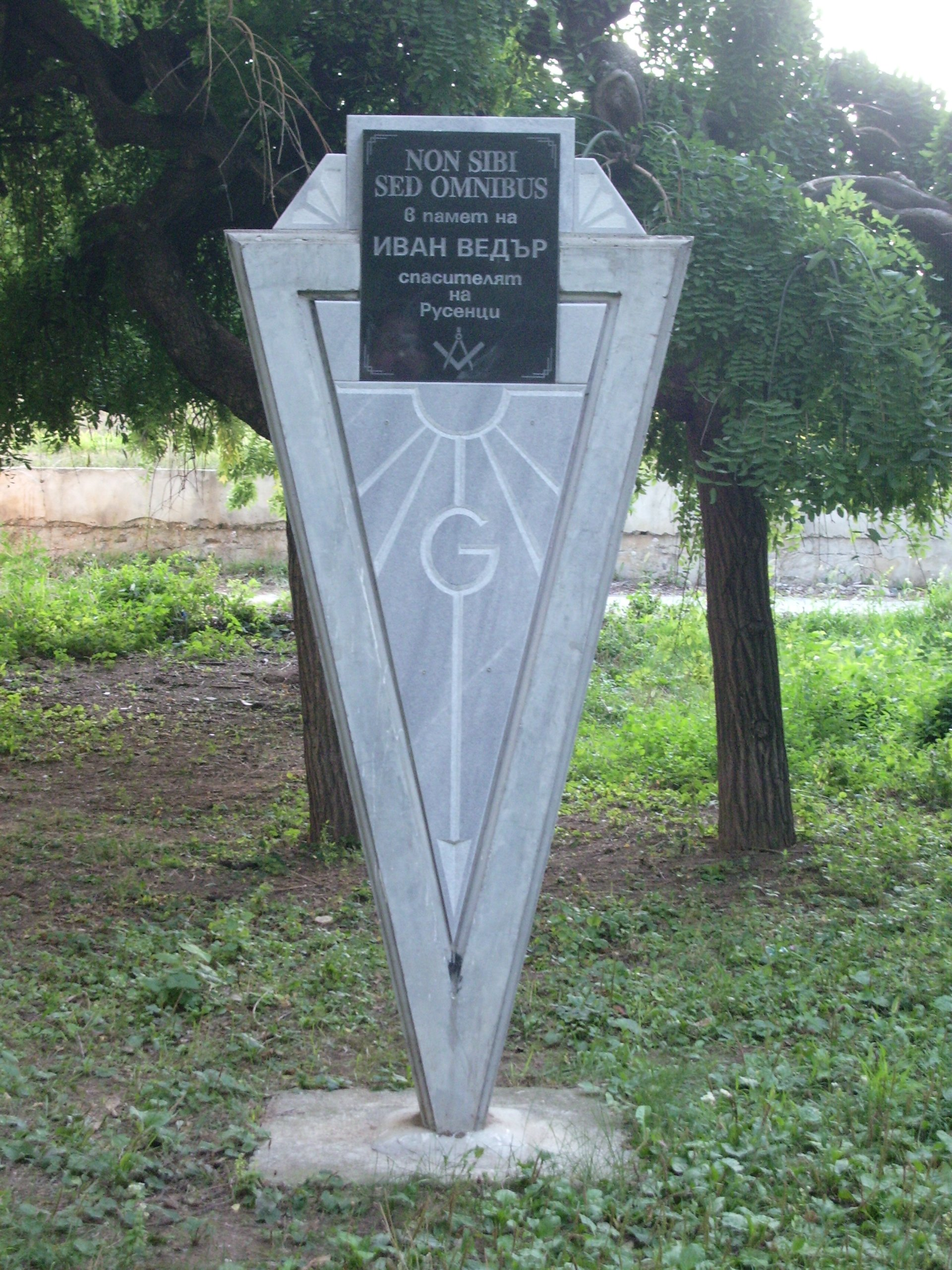 The monument of Ivan Vedar behind the Pantheon in Rousse, Bulgaria. The text says "Not for self but for all" (Latin: Non sibi sed omnibus) and "in memory of Ivan Vedar, the savior of the people of Rousse" (Bulgarian: В памет на Иван Ведър, спасителят на Русенци). The square, the compasses, and the letter "G" are masonic symbols.